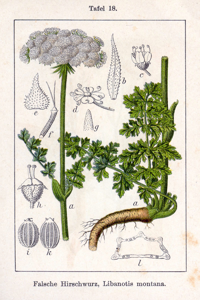 Seseli libanotis (L.) Koch, Libanotis montana Crantz Original Description Falsche Hirschwurz, Libanotis montana